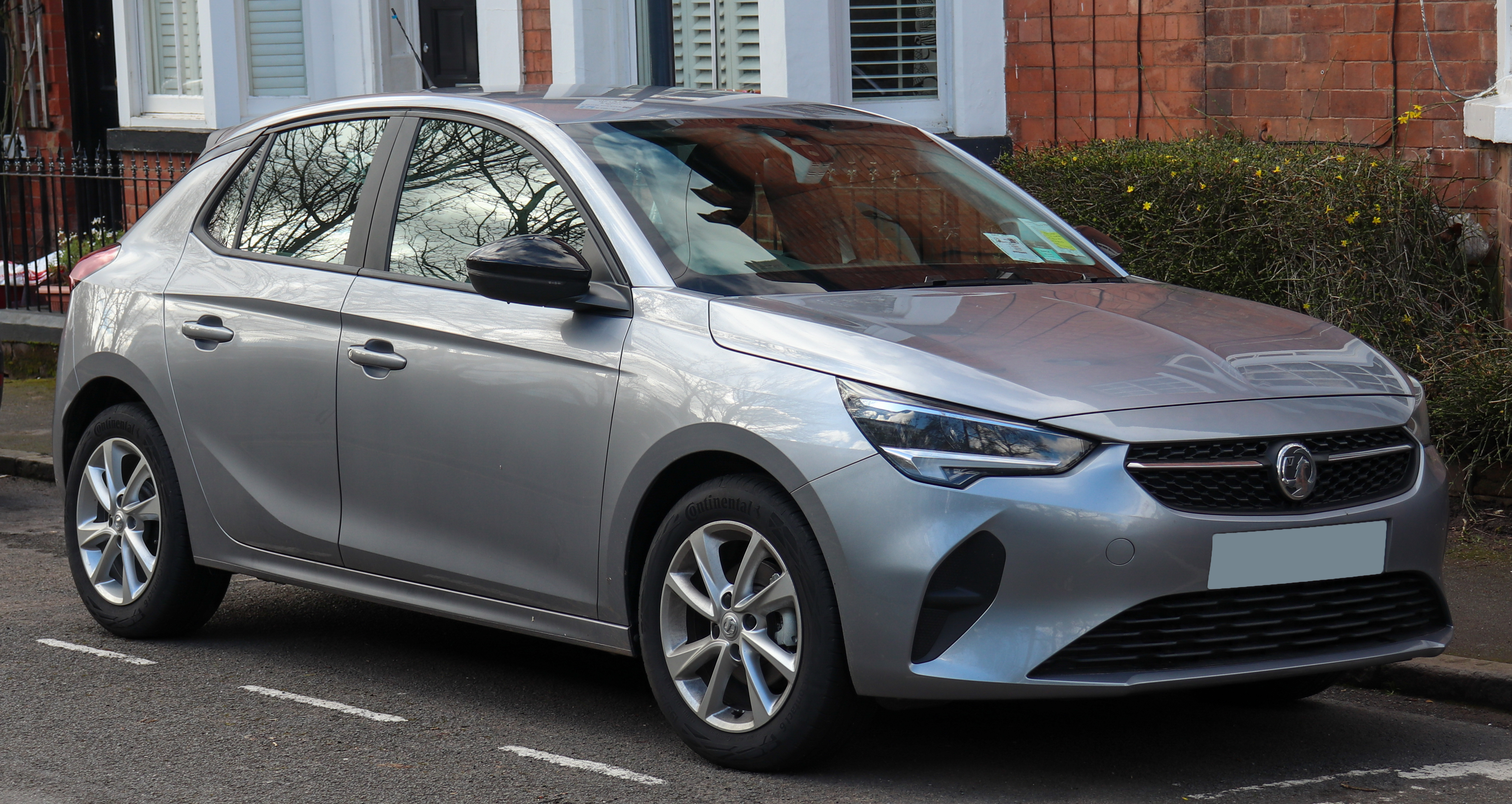 2019 Vauxhall Corsa SE NAV 1.2 Front Taken in Leamington Spa